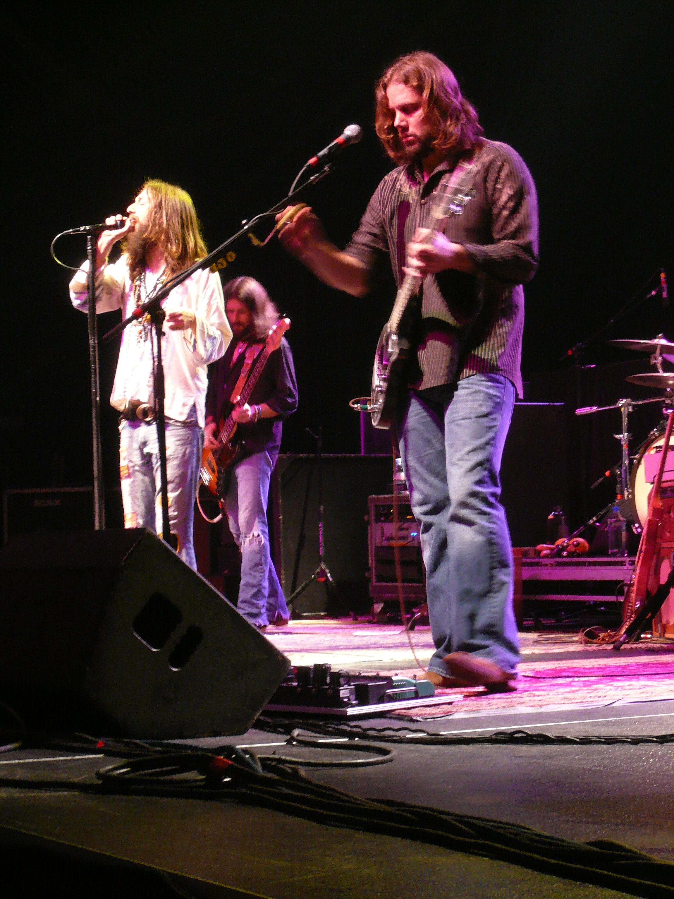 The Black Crowes at the Verizon Wireless Theater ~ Houston 9-4-07